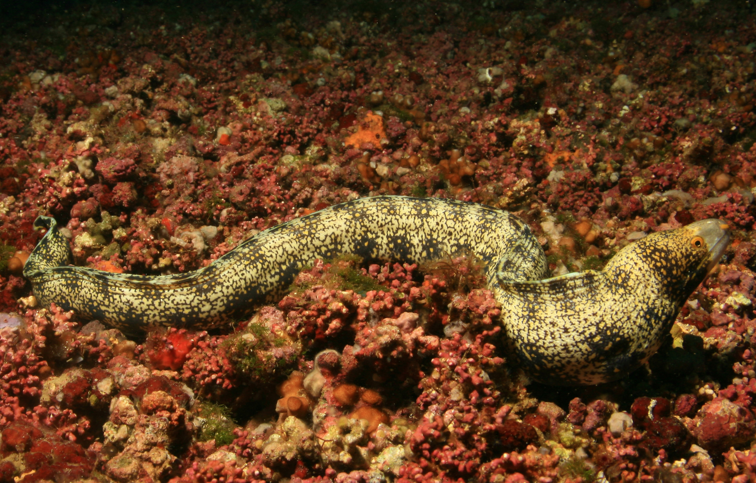 This Snowflake Moray (Echidna nebulosa) was photographed at Iglesia (Church) dive site in the Coiba National Park, Panama.